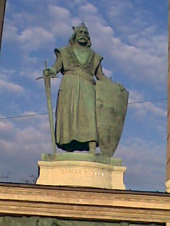 The statue of Charles Robert in Heroes' Square monument. Sculptor: György Kiss (1852–1919) in 1905